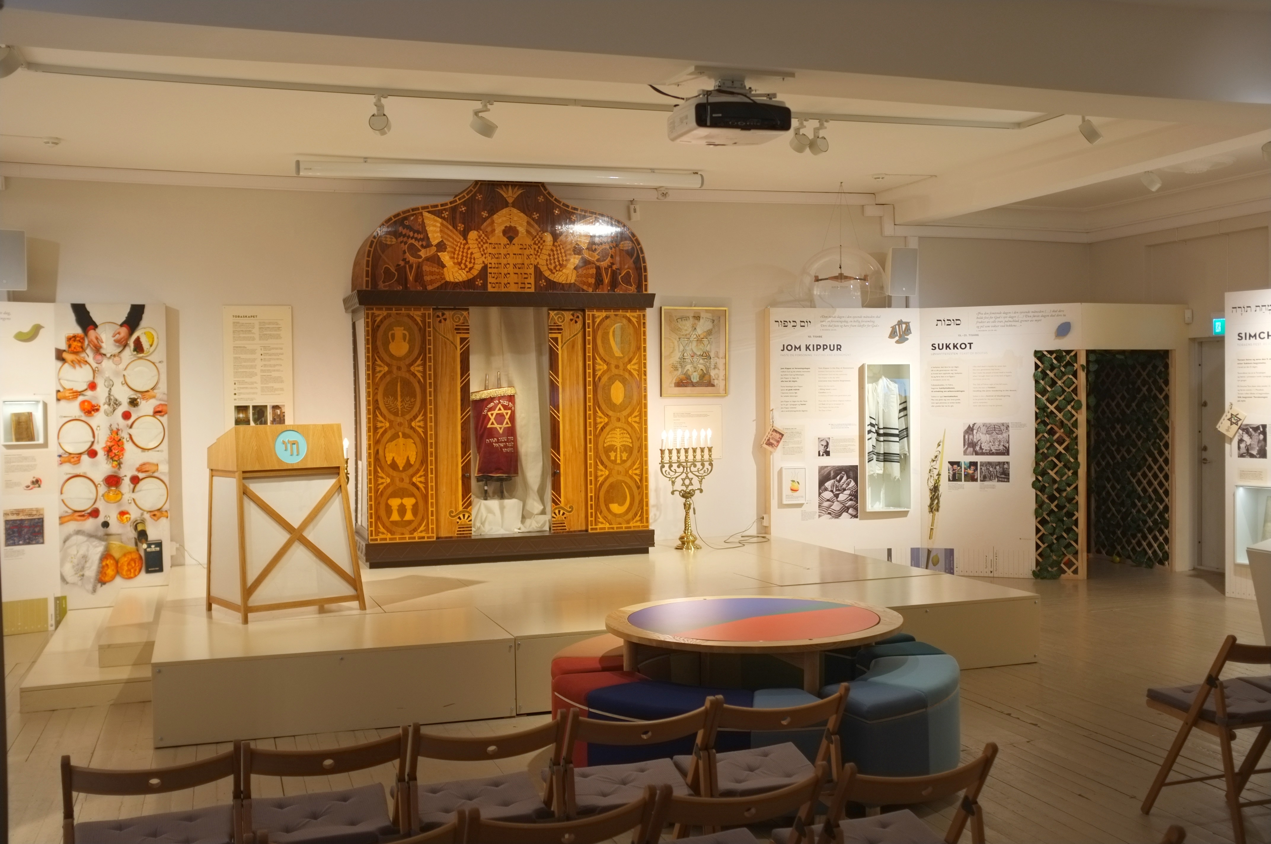 Oslo Jewish Museum